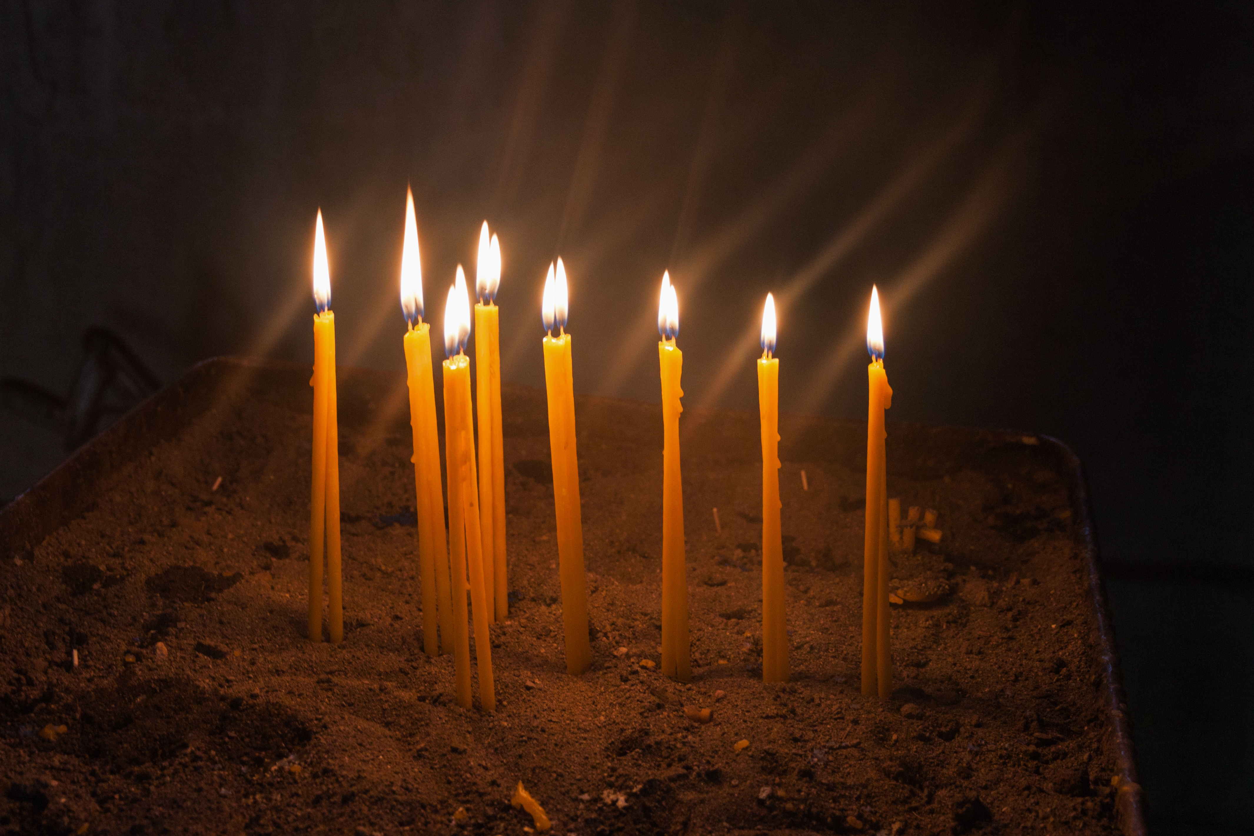 Candles inside a church. Saint John the Baptist church. Gandzasar monastery. Nagorno-Karabakh.